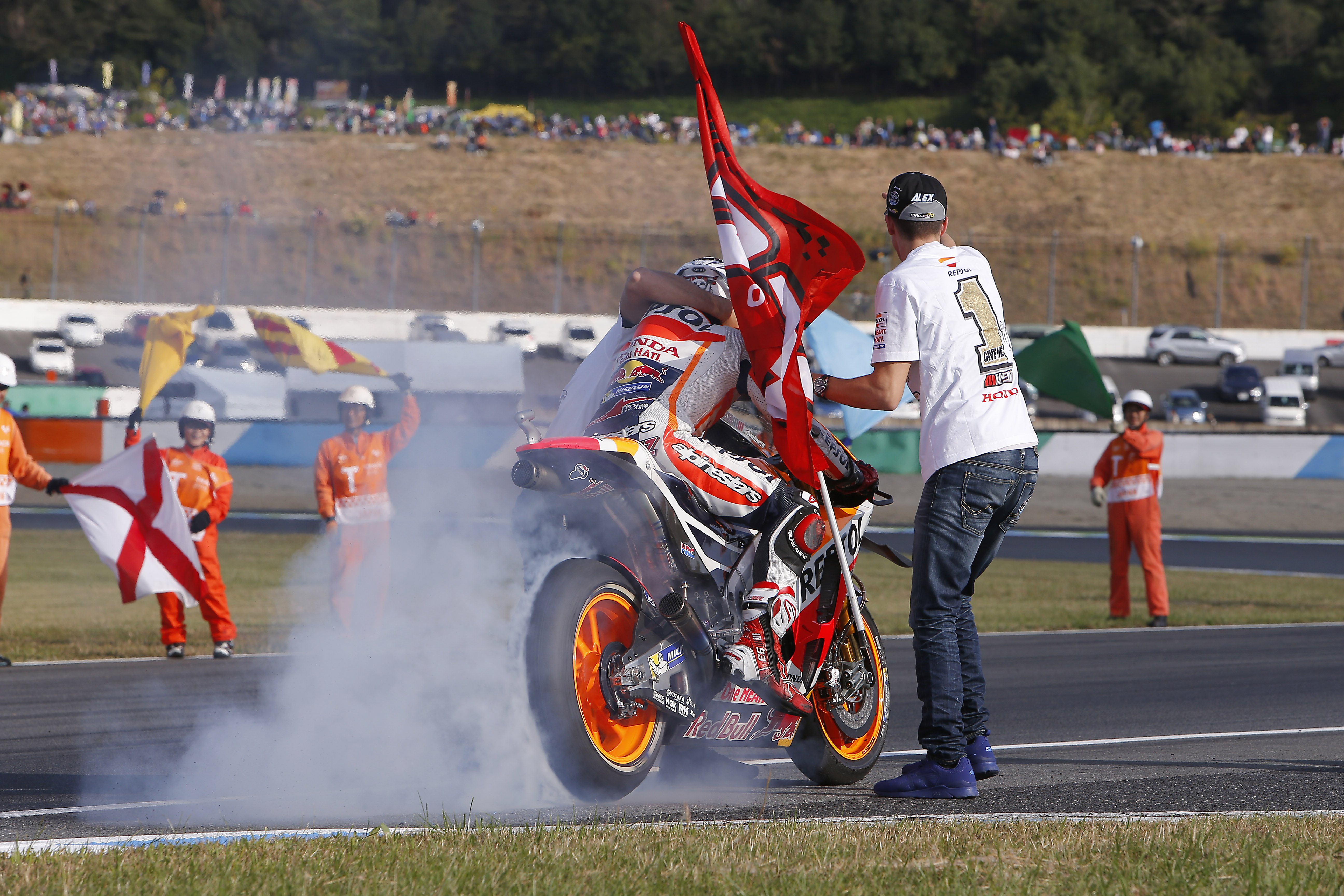 Marc Márquez, riding his Repsol Honda, doing a burnout and celebrating his third MotoGP world championship title after winning the 2016 Japanese Grand Prix.